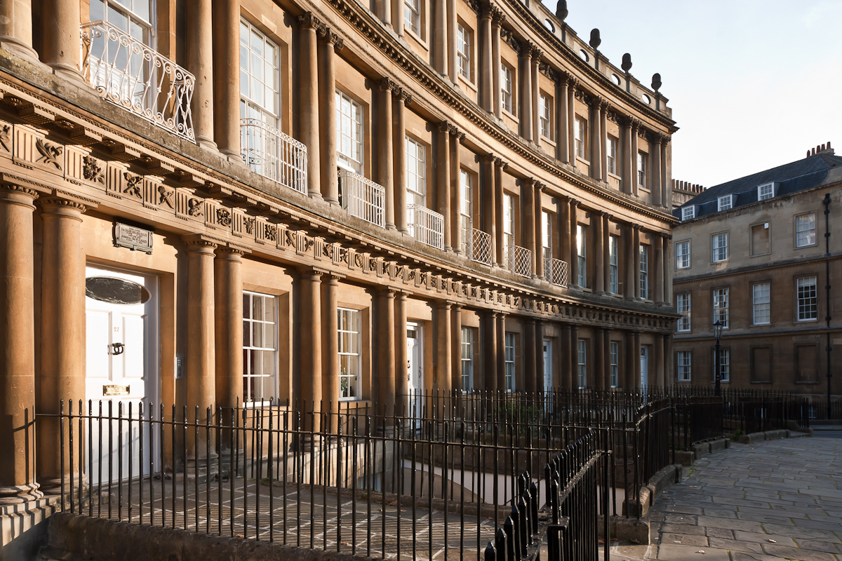 Residential house (left) of the physician Caleb Hiller Parry and his son, Admiral William Edward Parry, at Bath Circus in Bath, Somerset, United Kingdom.